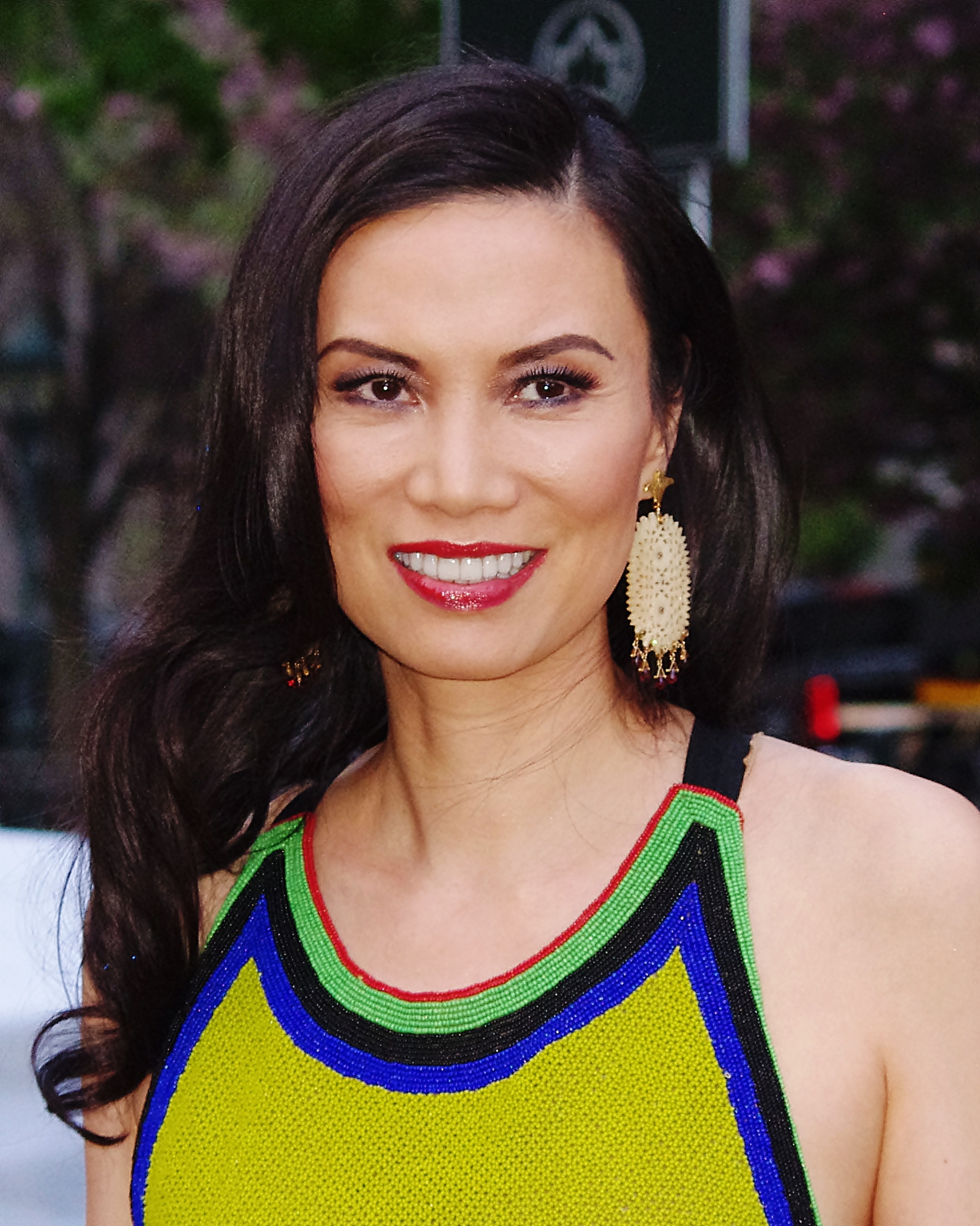 Wendi Murdoch at the 2012 Tribeca Film Festival.